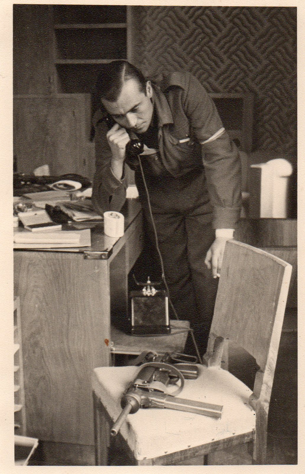 Aurelio Verra nella redazione di Giustizia e Libertà, Cuneo.